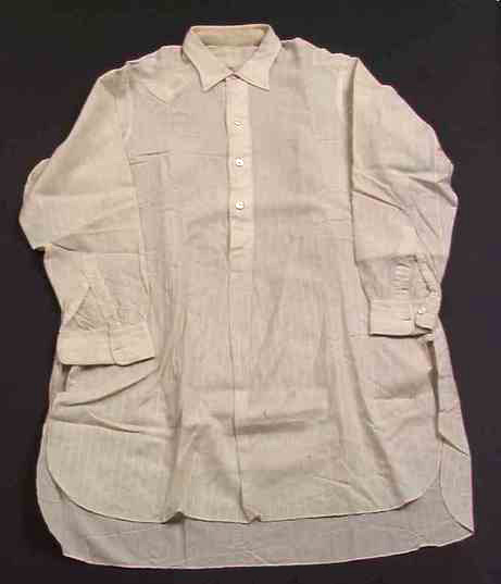 Photograph of a woven striped wool shirt, labelled "Charvet, 8 place Vendôme Paris". Collection of the Norsk Folkemuseum, Oslo (NF.1963-0313).